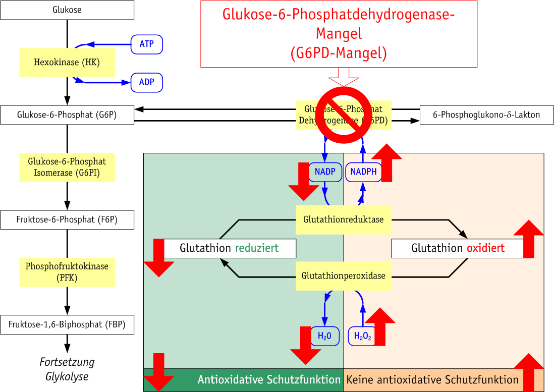 WARNING! Image contains errors!Oxidised Glutathione decreases and Reduced Glutathione increases in G6PD deficiency Simplified schematic depiction of glutathione metabolism in state of glucose-6-phosphate dehydrogenase deficiency.